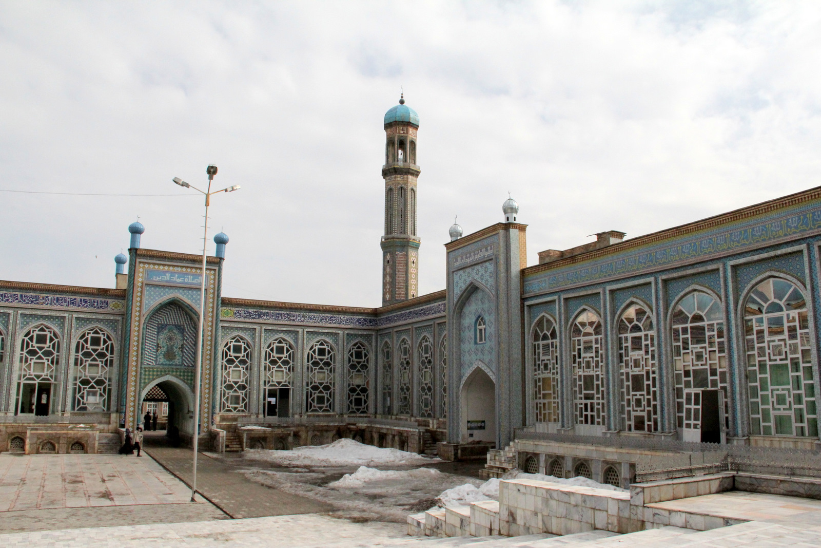 Grand Masjid, Dushanbe, Tajikistan